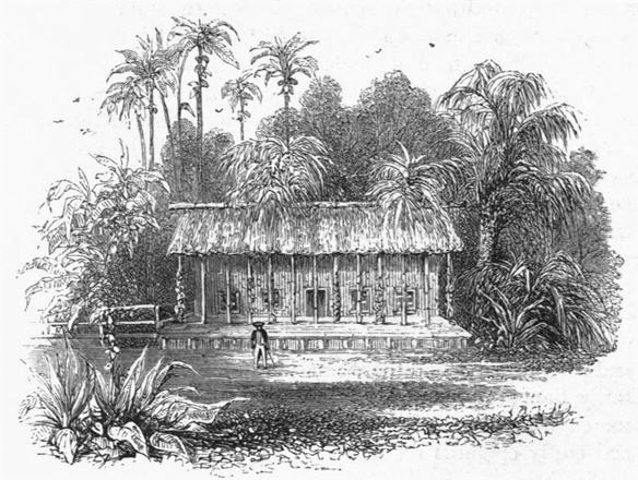 Robert's Stephenson's cottage he lived when working at the Santa Anna mines in Colombia